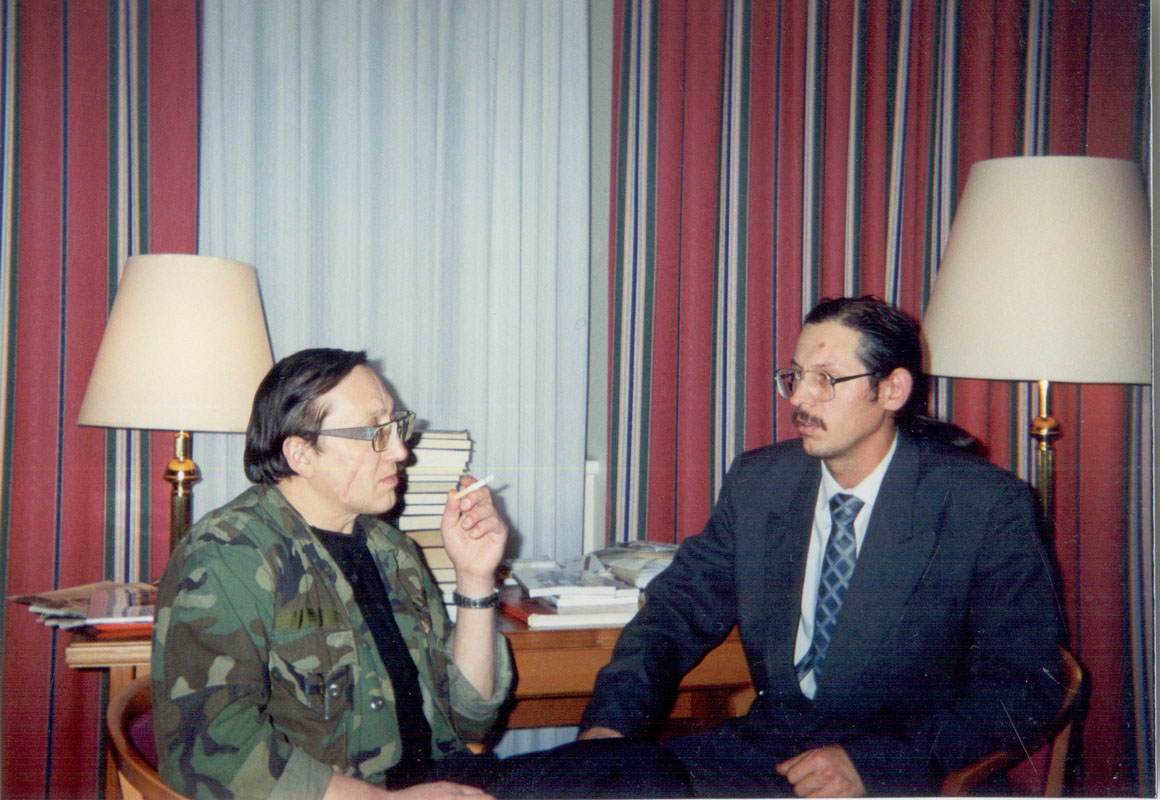 Shemiakin & Konenko